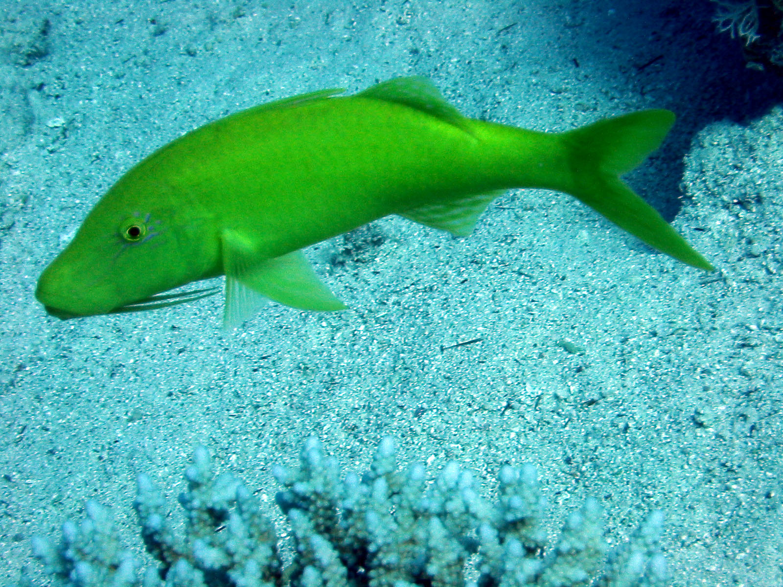 Parupeneus cyclostomus Dahab red Sea